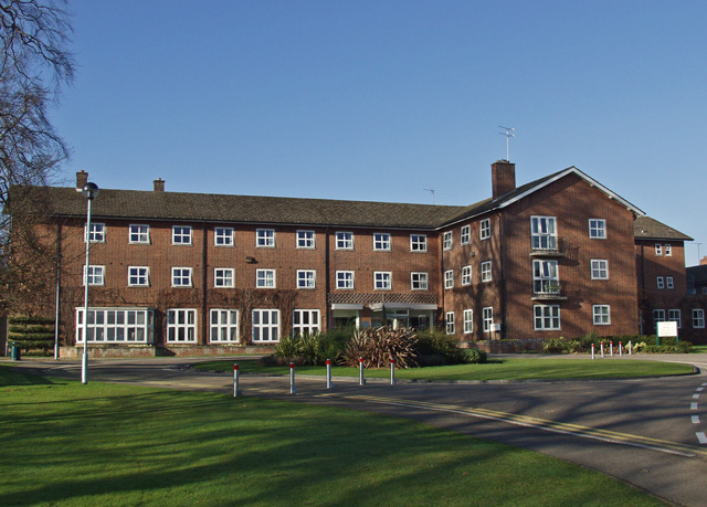 Administration building Bishop Burton College, Bishop Burton in the East Riding of Yorkshire, England.The main administration building at the college of agriculture.